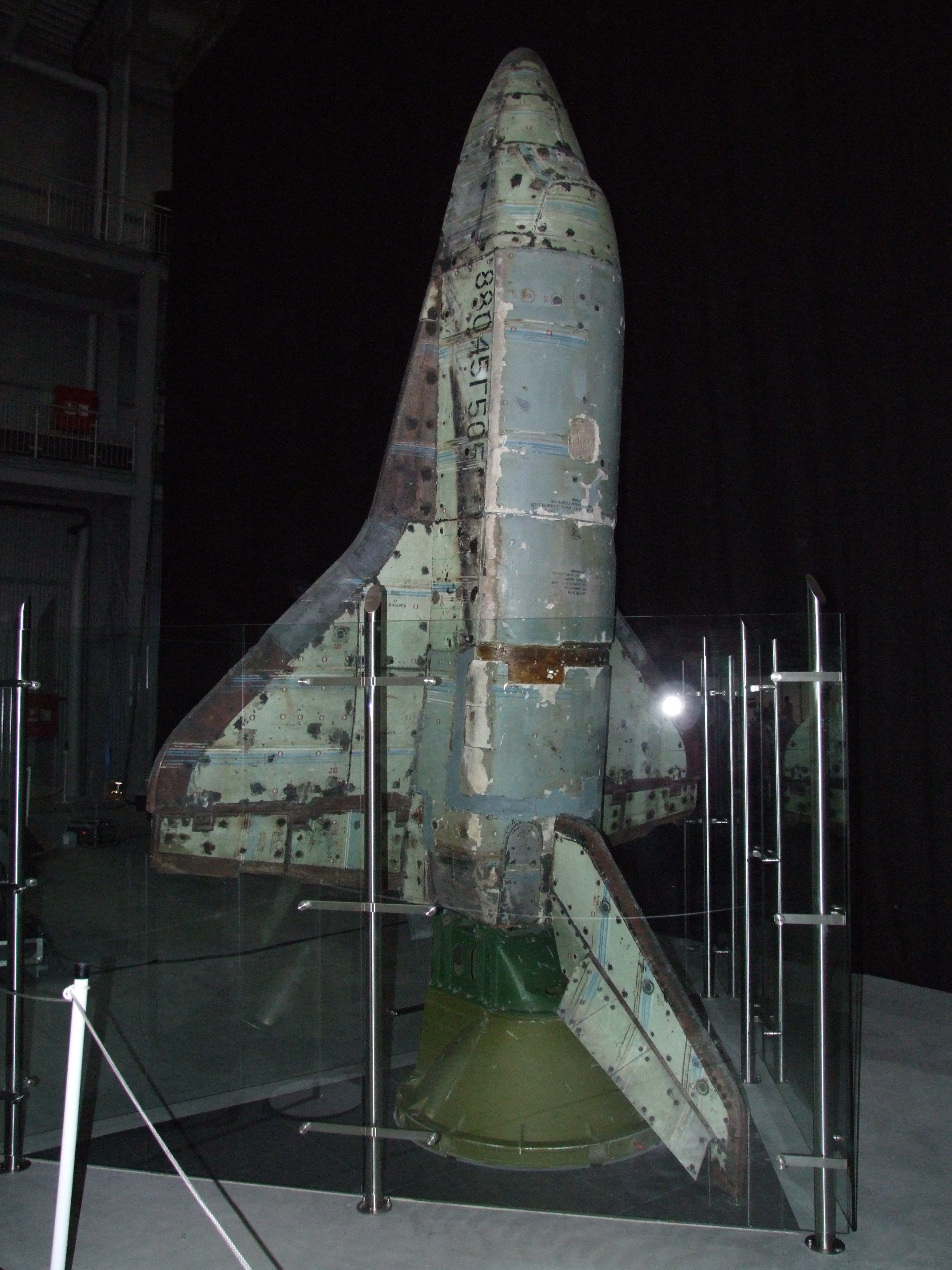 BOR-5, experimental model of space shuttle Buran. This is vehicle 505, one of five built.